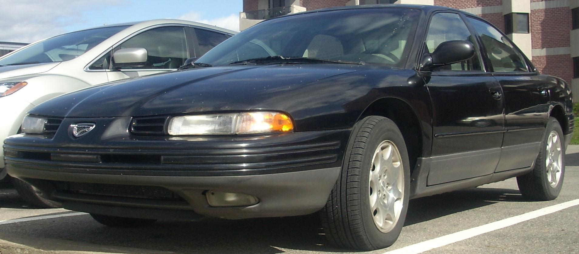 Eagle Vision photographed in Montreal, Quebec, Canada.